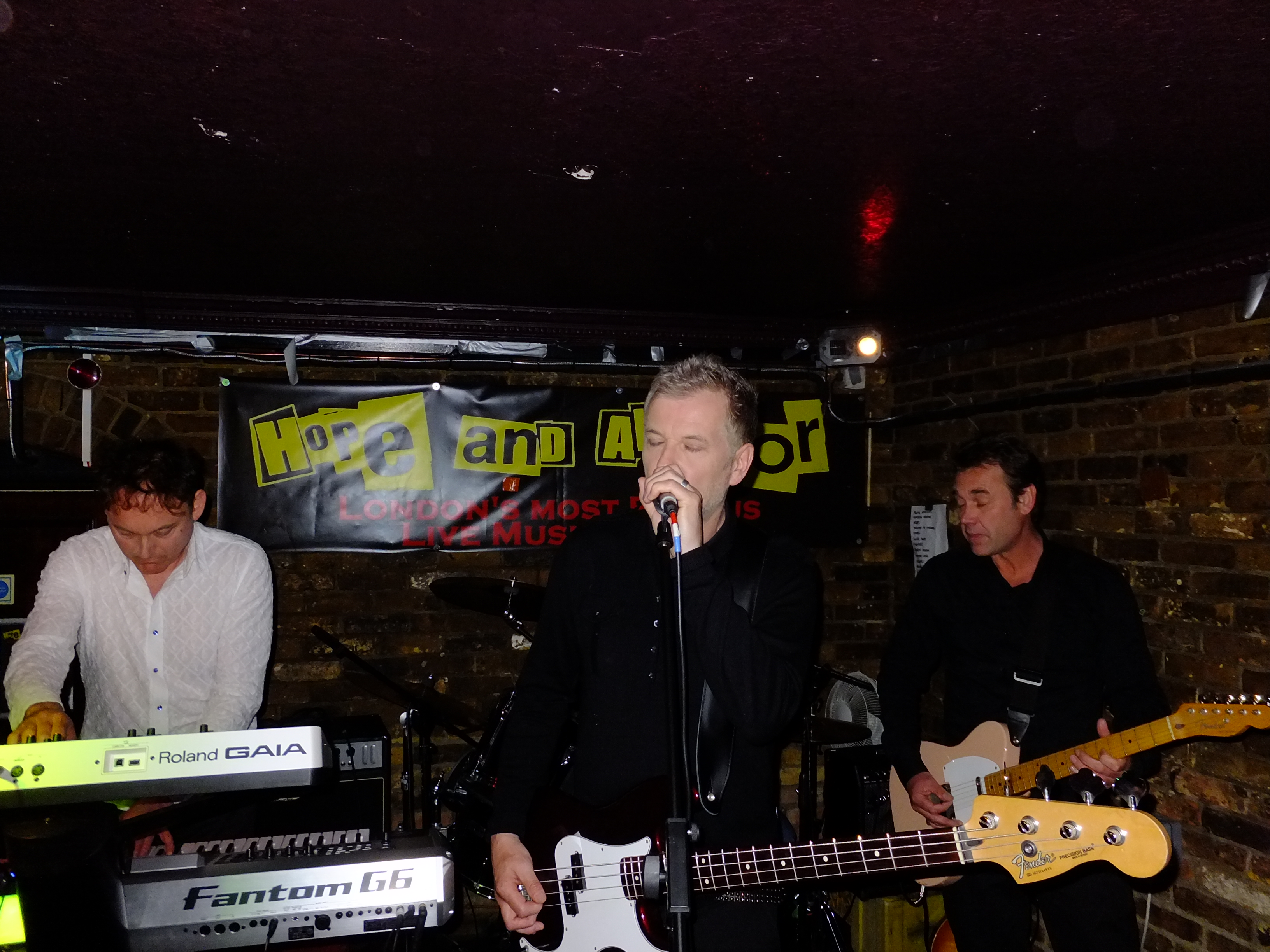 B Movie at Hope and Anchor June 2013